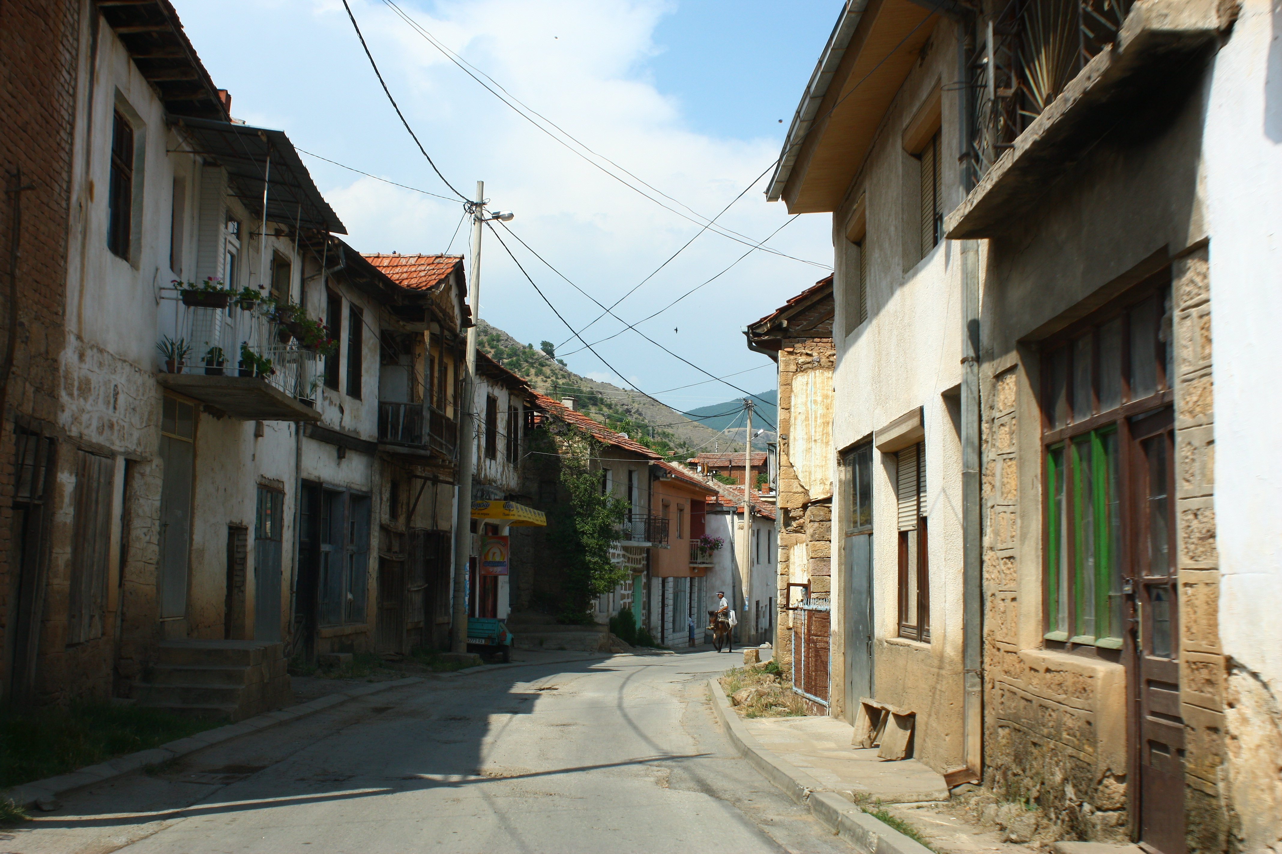 Zletovo, Macedonia